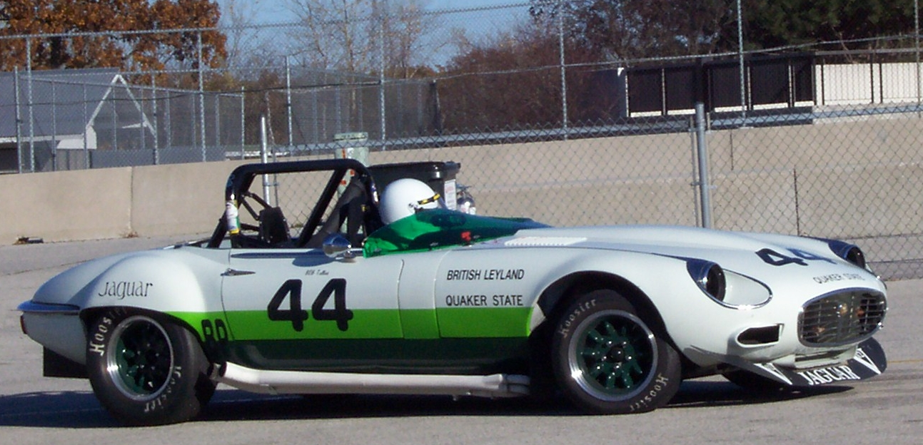 Tullius raced in Sports Car Club of America in the mid 1970s, winning the 1975 championship in the Group 44, Inc. Jaguar V-12 E-Type.10.27.07 Road America - #44 Bob Tullius Jaguar Convertible